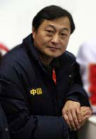 Yao Bin at the boards at the 2007-2008 Grand Prix Final.